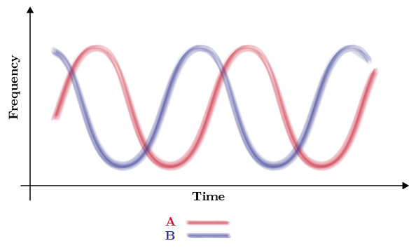 graph depicting fluctuating selection or red queen